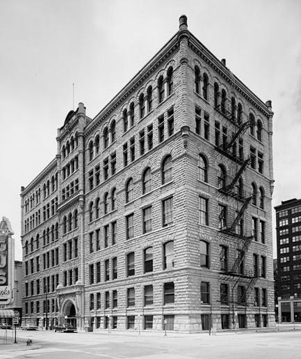 Chicago Criminal Courts Building, 54 West Hubbard Street, Chicago (Cook County, Illinois) (cropped) {PD-USGov-Interior-HABS